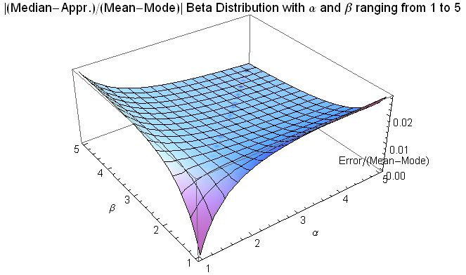 Error in Median Apprx. relative to (Mean-Mode) distance for Beta Distribution with alpha and beta from 1 to 5